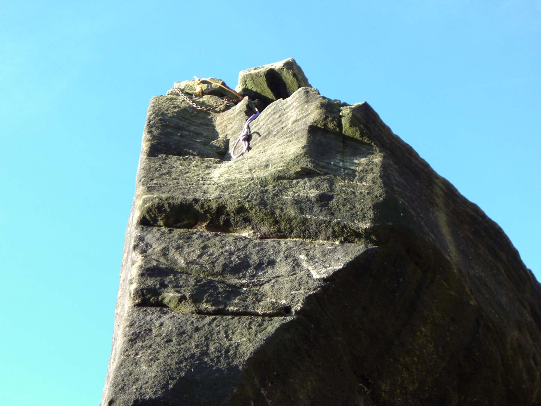 Personal picture taken by Mick Knapton